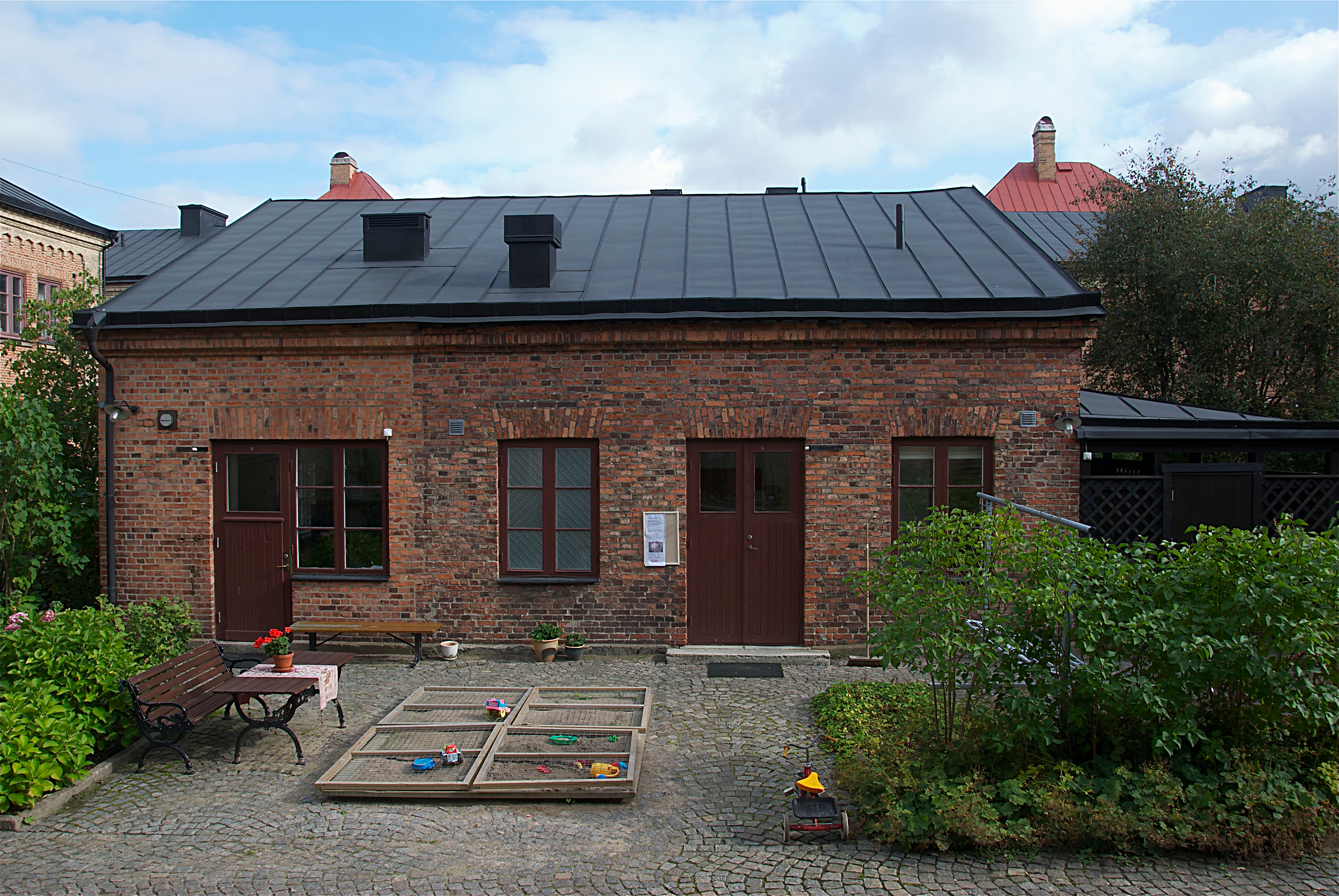 Fänriken is a historic city block in Haga district in Gothenburg built 1859-60. Architect Adolf Wilhelm Edelsvärd.